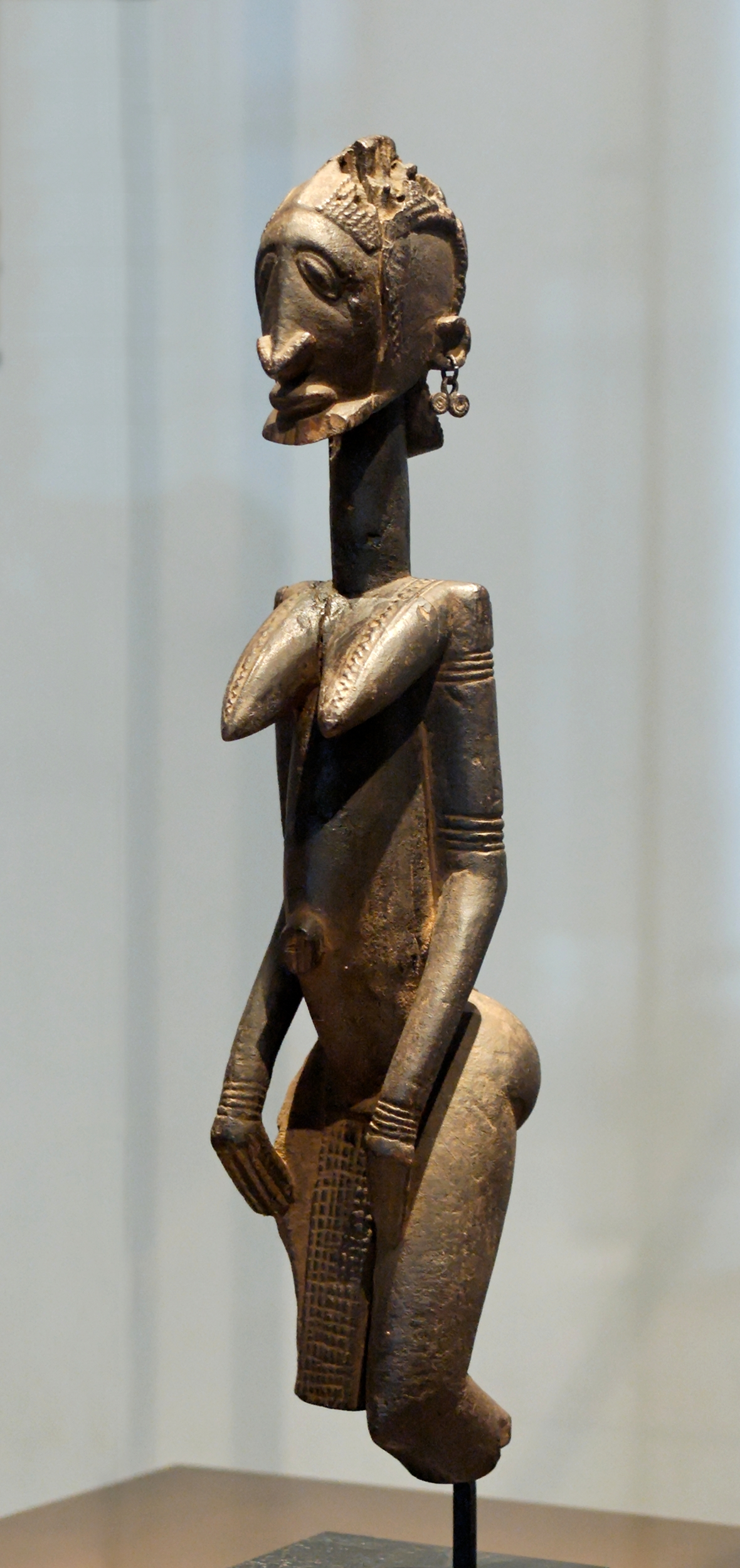 Antropomorphic representation, probably an ancestor figure. Wood, Mali, 17th-18th century.